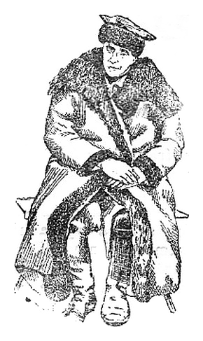 Kurpie flolklore: clothes